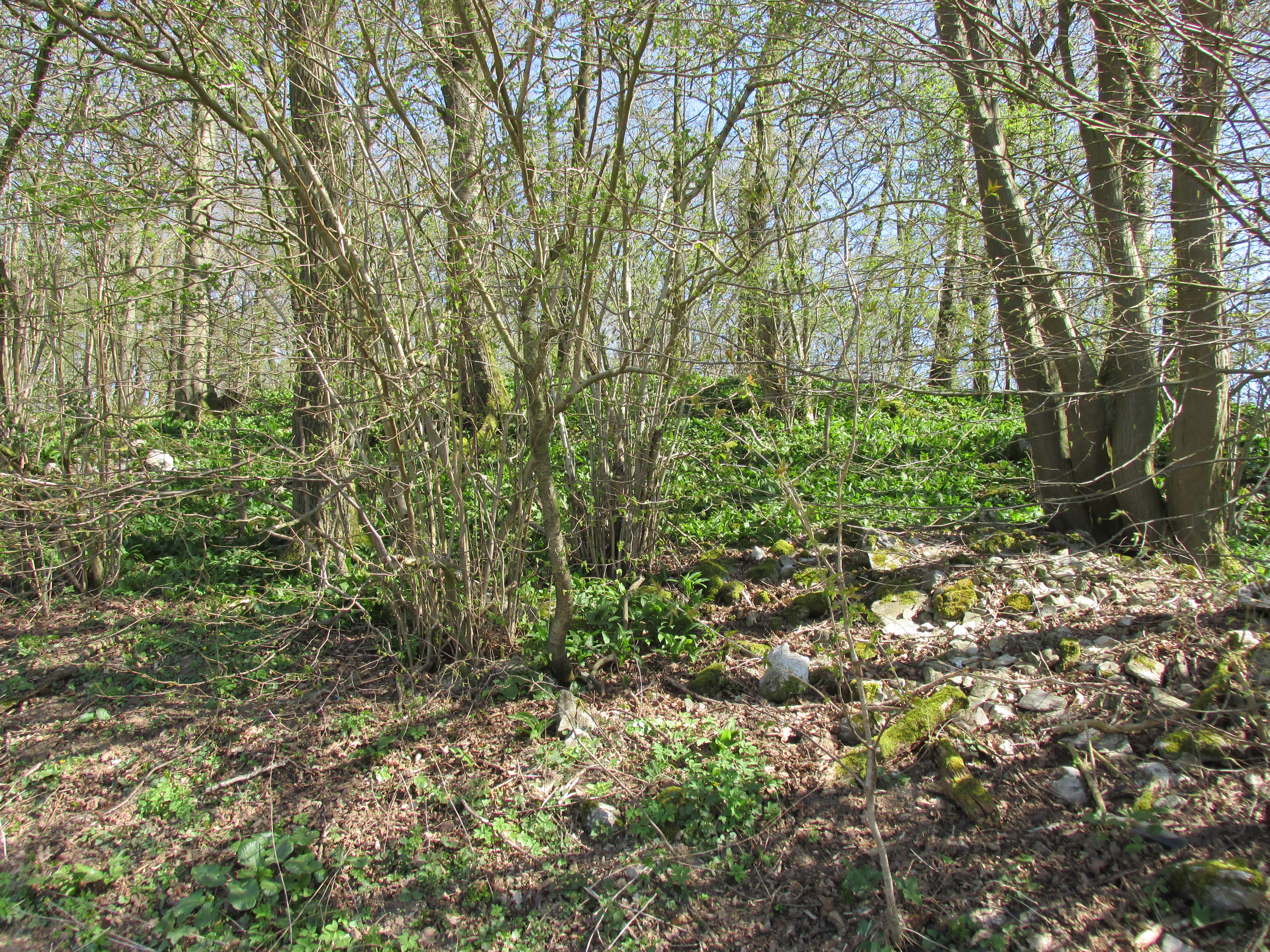 Nature reserve OE-041 Wunderwäldchen, Attendorn, Germany check usage